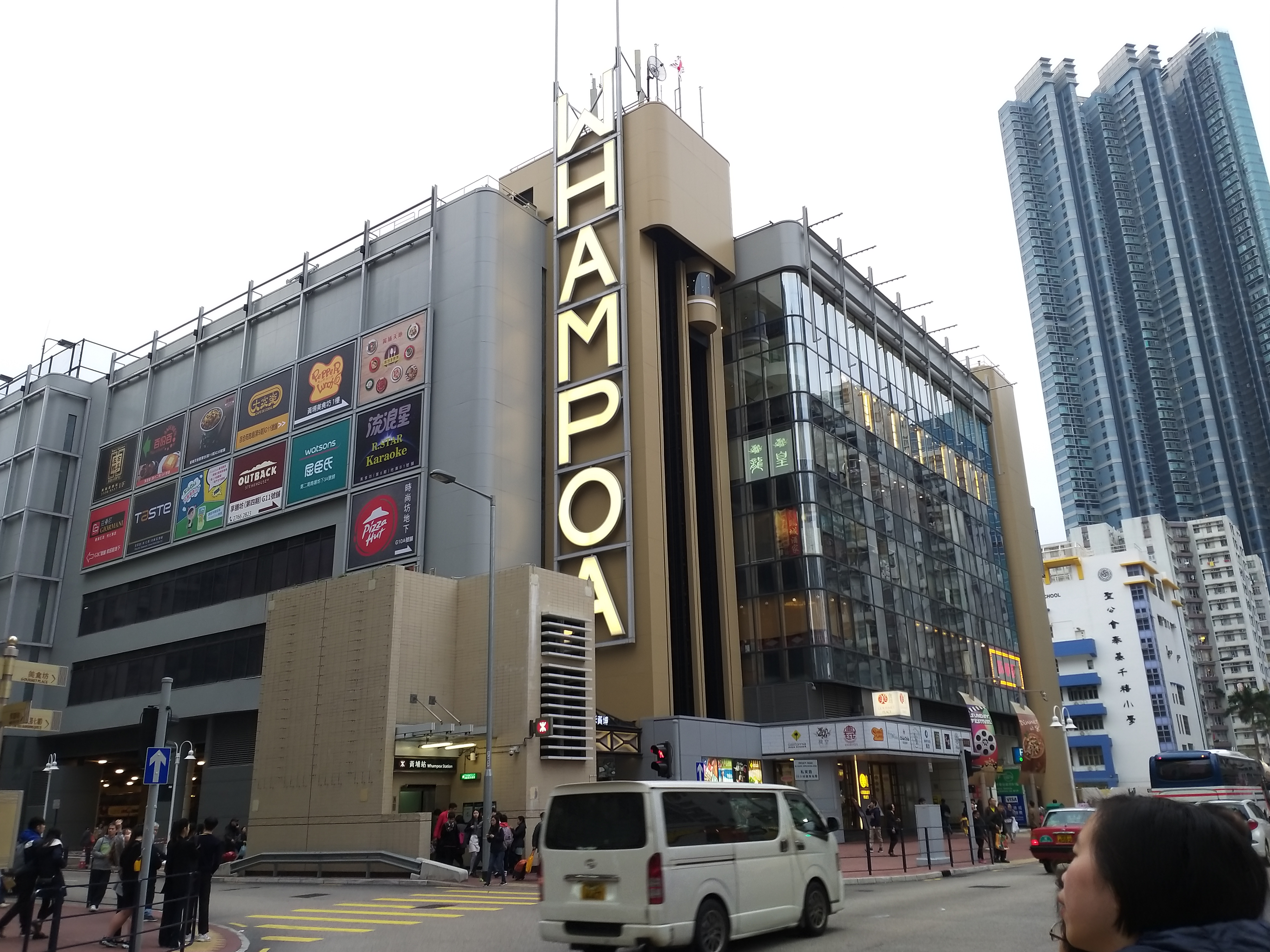 Whampoa